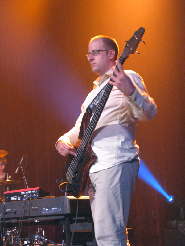 Bassist and Keyboard player of Canadian band "Spirit of the West" Taken at Flames Central in Calgary, Alberta Canada.